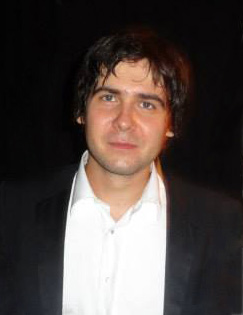 Image created by author (Iluv2write).